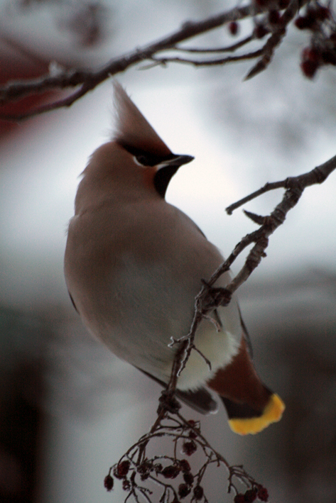 Bohemian Waxwing